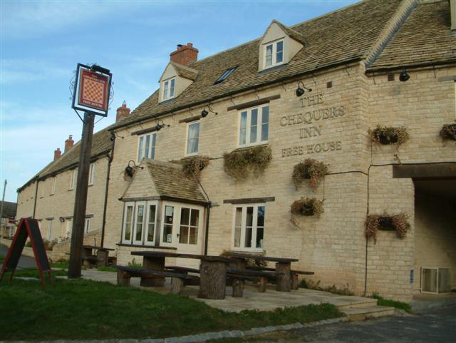 The Chequer's Inn, Cassington, Oxfordshire